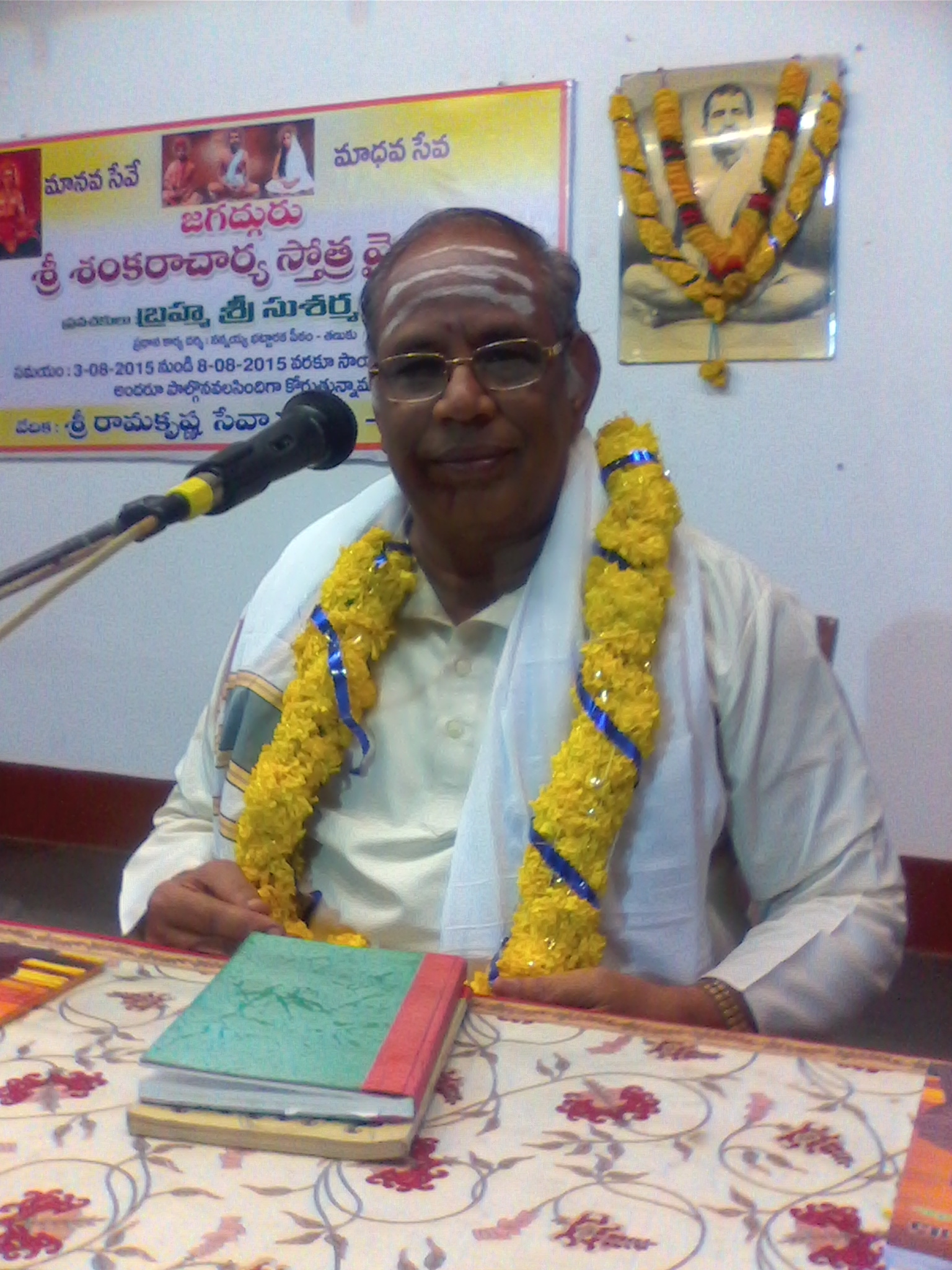 తణుకు శ్రీ రామకృష్ణ సేవాసమితి లో శ్రీ శంకరాచార్య స్తోత్ర వైభవం ప్రవచనం